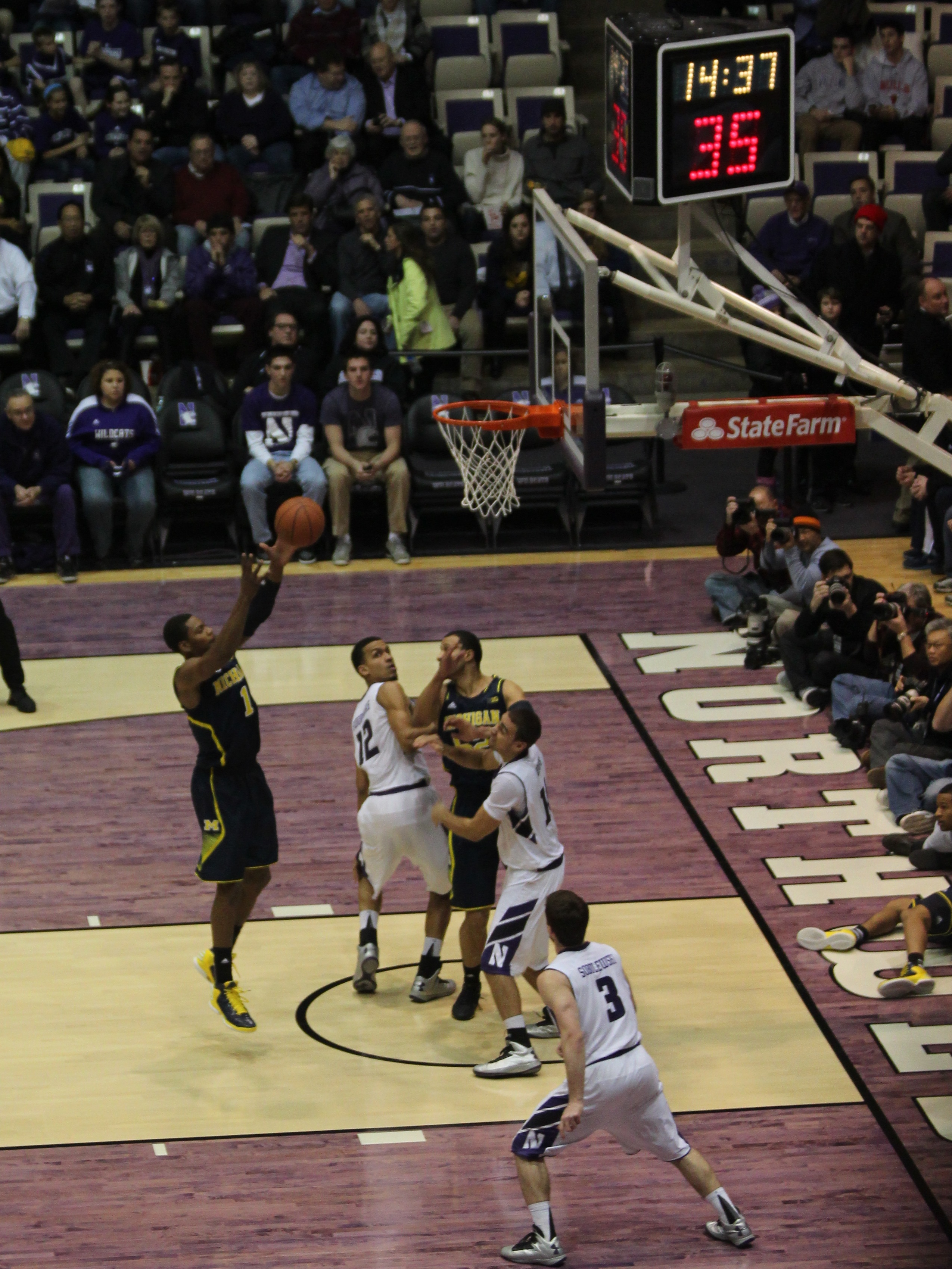 Glenn Robinson III making an offensive rebound for the 2012–13 Michigan Wolverines men's basketball team against 2012–13 Northwestern Wildcats men's basketball team